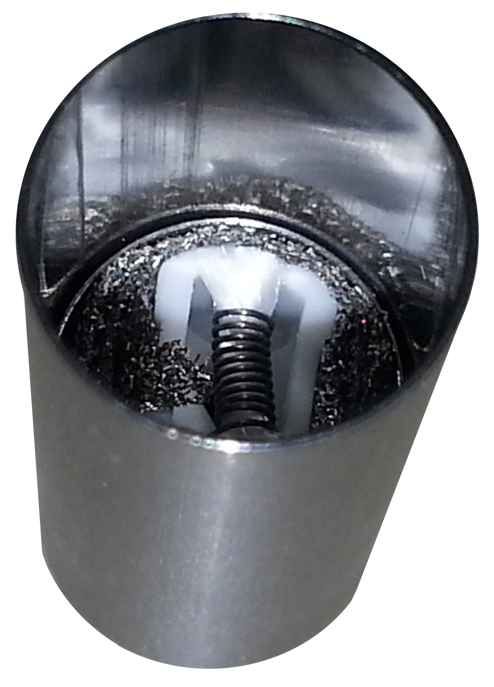 A bridgeless dripping atomizer electronic cigarette component